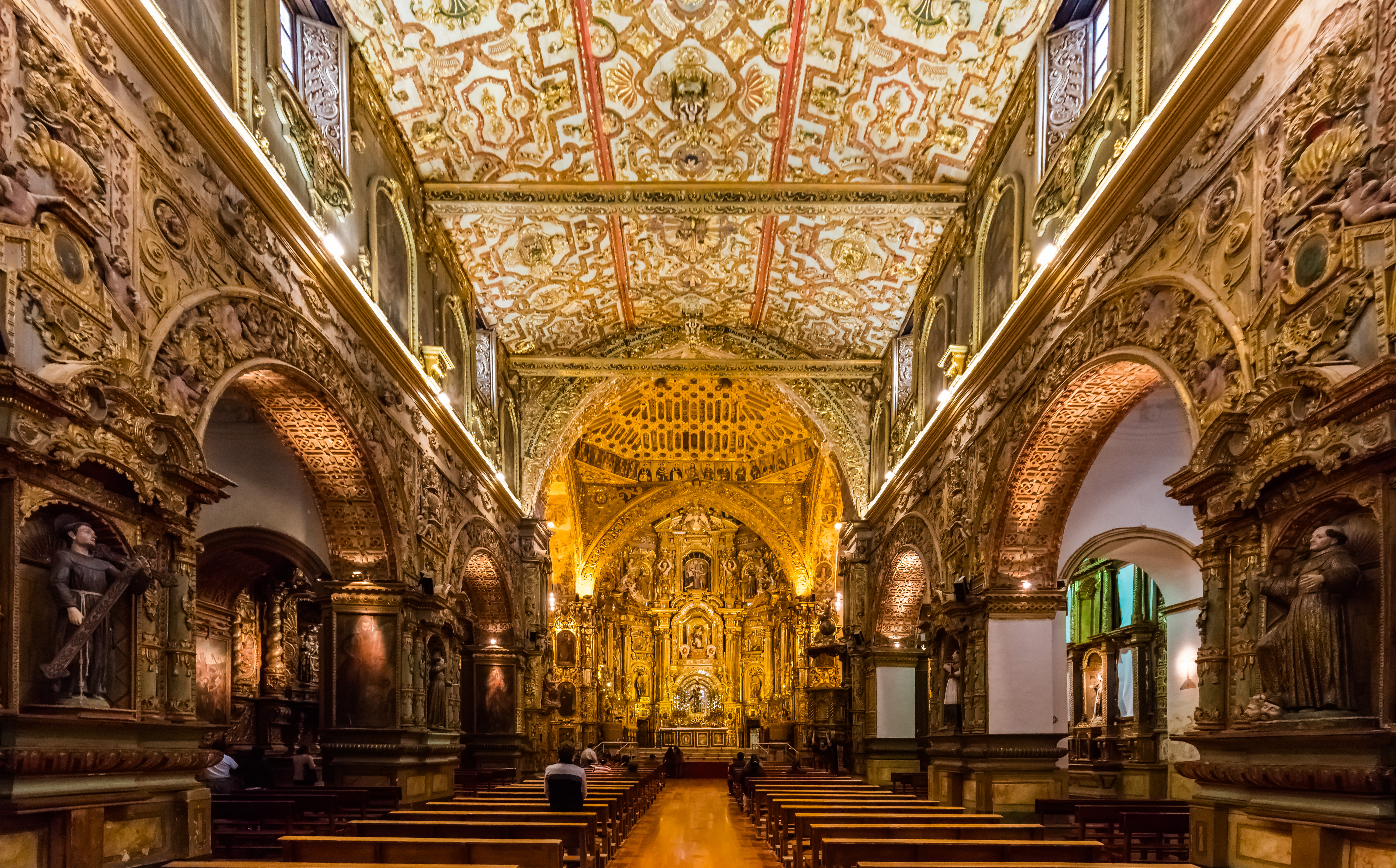 Church of San Francisco, Quito, Ecuador